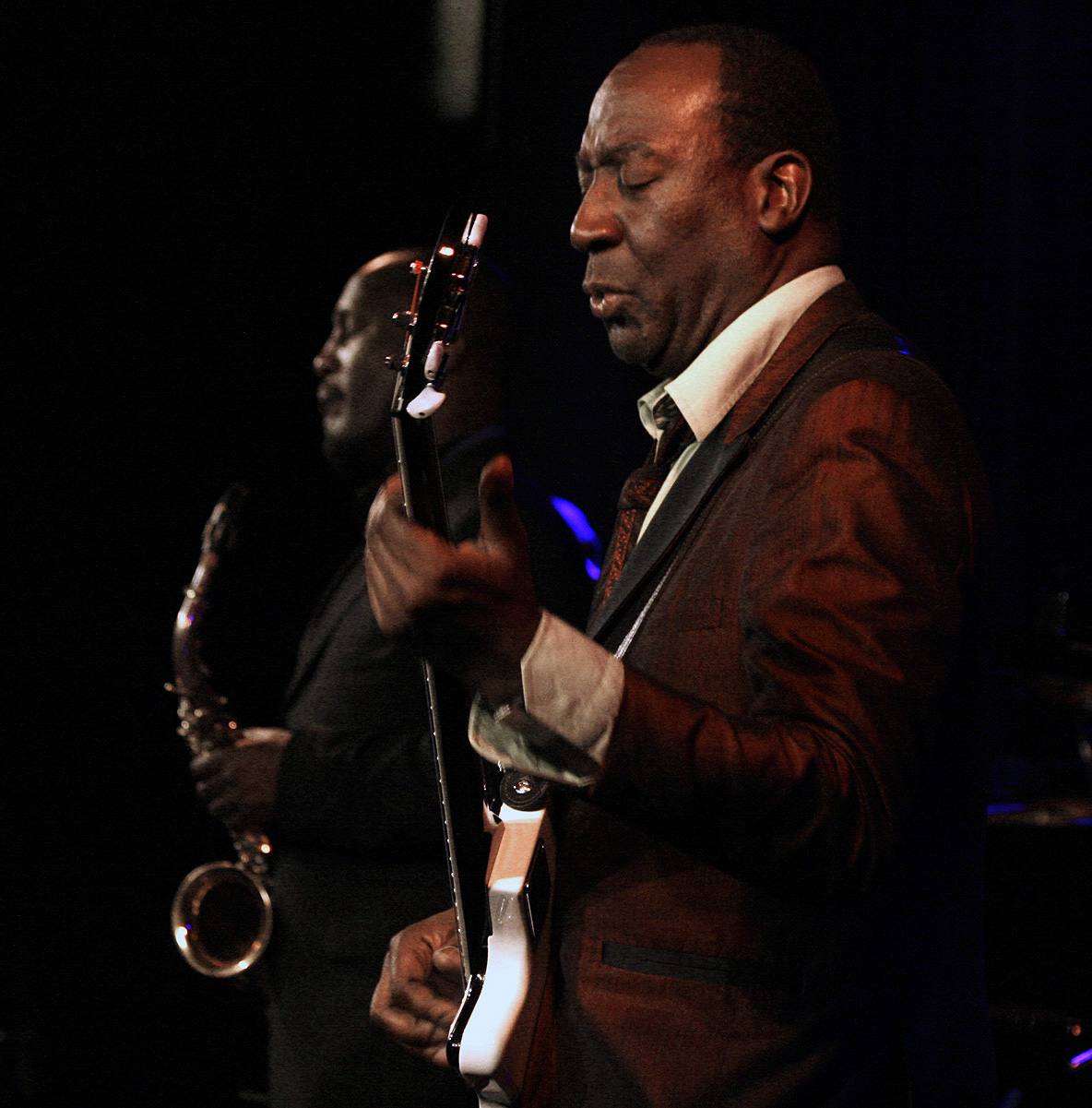 Jamaaladeen Tacumas Coltrane Configurations with Tony Kofi (sax.), Orrin Evans (p.) and Tim Hutson (dr.) at the Reigen in Vienna (Austria).